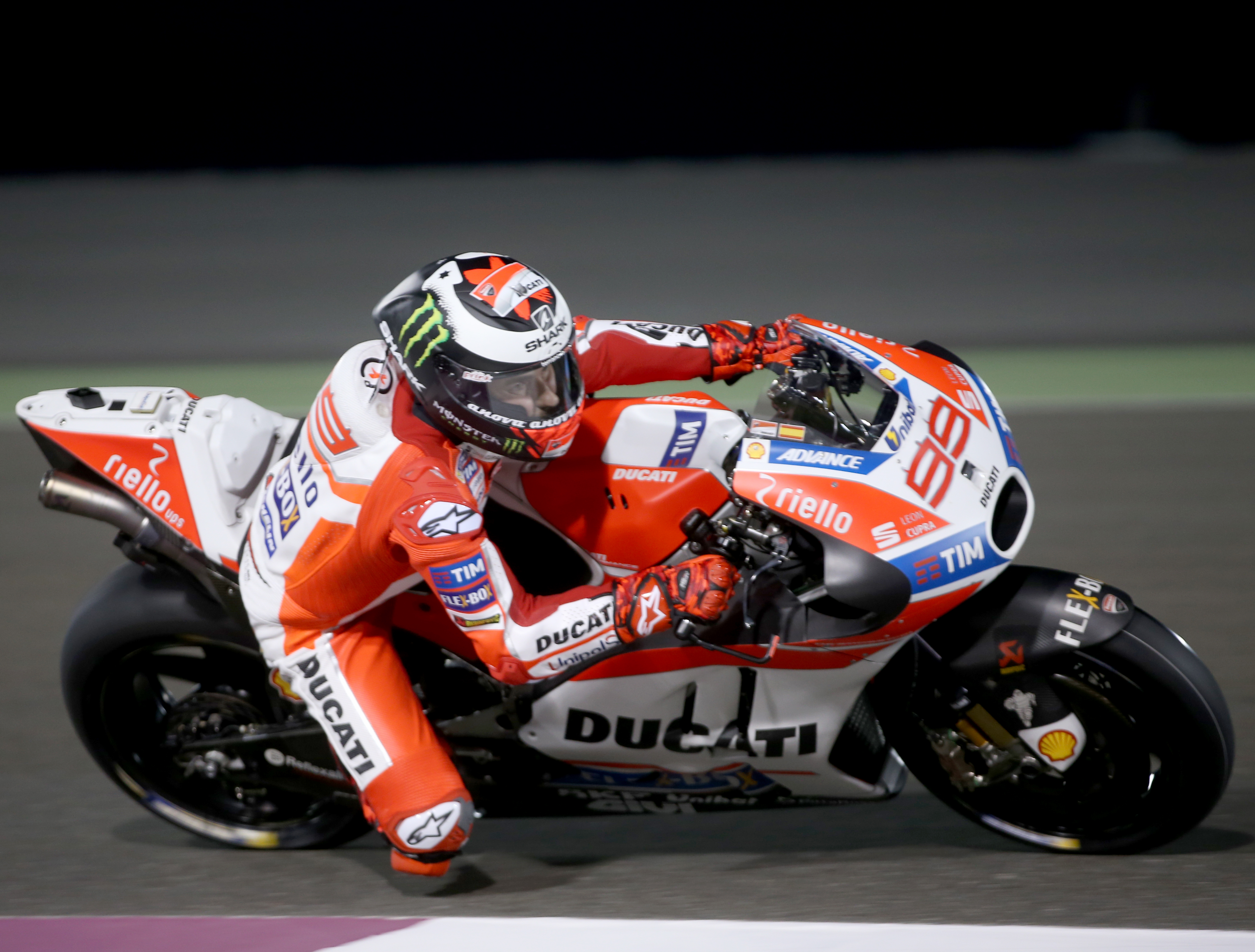 Pic by Mohan